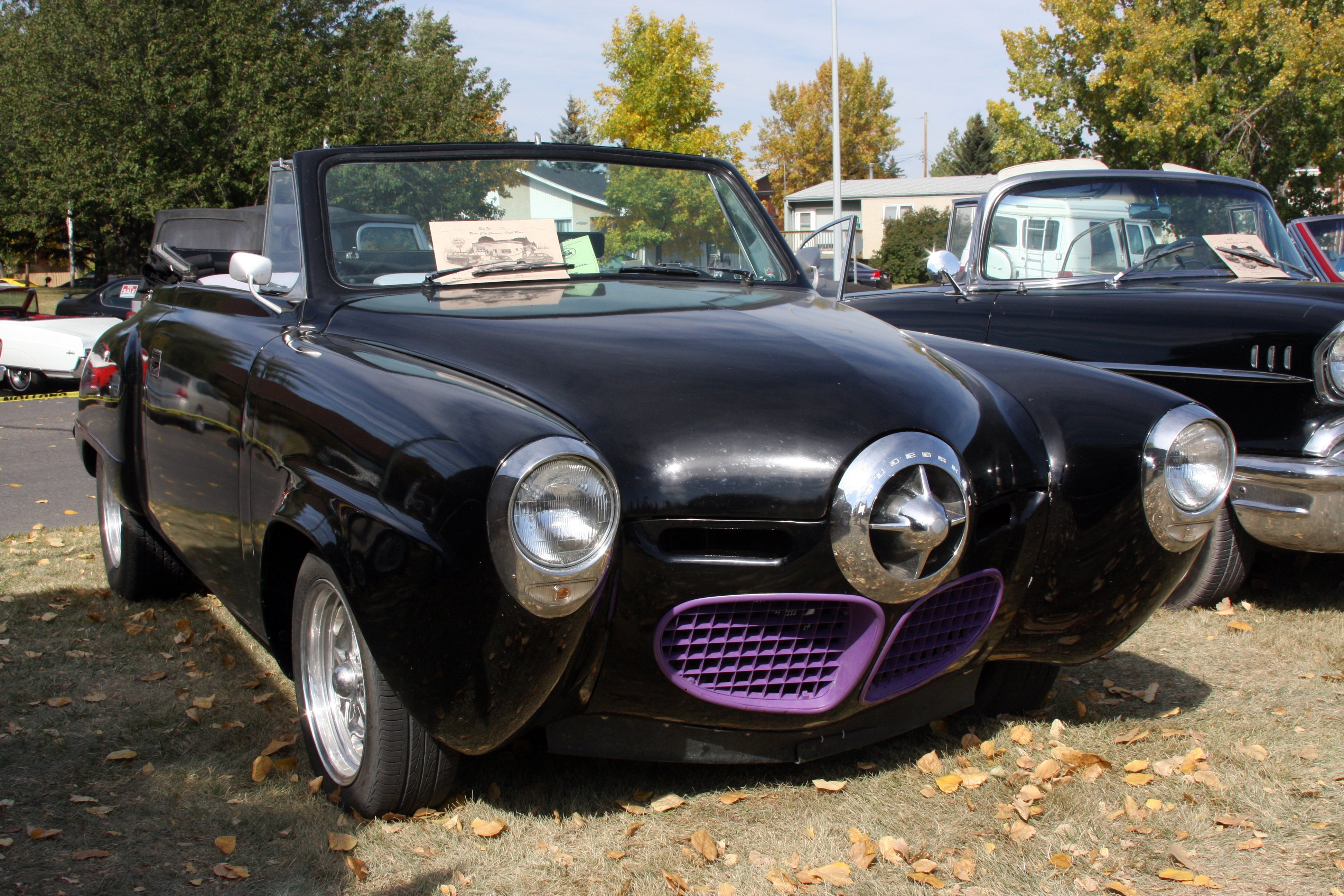 Customized bullet nose 1948 Studebaker convertible